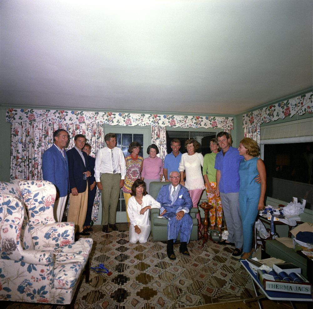 Joseph P. Kennedy, Sr. and Rose Kennedy pose with some of their children and childrens’ spouses in the sunroom of Joseph P. and Rose Kennedy's home in Hyannis Port, Massachusetts. The group gathered to celebrate Joseph P. Kennedy, Sr.’s birthday. (L-R) Kneeling: First Lady Jacqueline Kennedy; Joseph P. Kennedy, Sr. (L-R) Standing: R. Sargent Shriver; Stephen Smith, Sr.; Ethel Kennedy; President John F. Kennedy; Jean Kennedy Smith; Rose Kennedy; Robert F. Kennedy; Eunice Kennedy Shriver; Patricia Kennedy Lawford; Edward (Ted) Kennedy; Joan Kennedy.